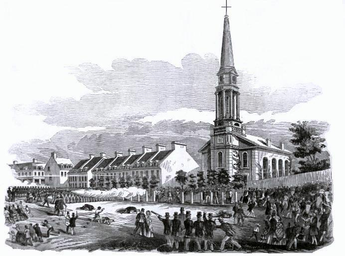 Engraving, Troops firing on the crowd, Gavazzi Riots, Montreal, QC, 1853, John Henry Walker (1831-1899), Ink on paper - Wood engraving - 27.2 x 35.5 cm